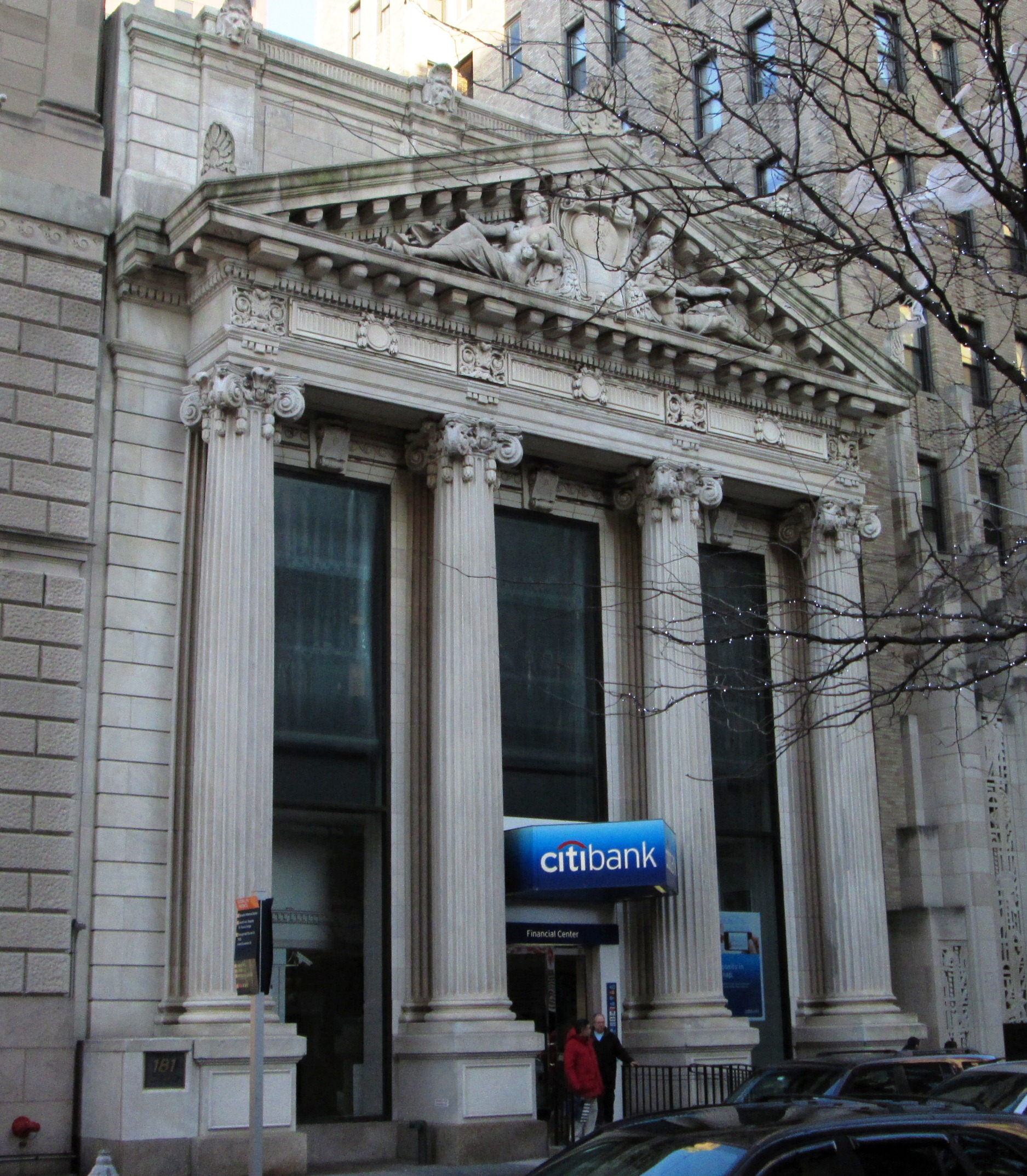 The People's Trust Company Building at 183 Montague Street between Clinton Street and Cadman Plaza West (Court Street) in the Brooklyn Heights neighborhood of Brooklyn, New York City was built in 1903 and designed by Mowbray & Uffinger in the Classical-Beaux Arts style, in imitation of a Roman temple. An Art Deco rear addition on Pierrepont Street dates from 1929 and was designed by Shreve, Lamb & Harmon. The People's Trust was founded in 1889 and was a precursor to Citibank. (Sources: AIA Guide to NYC (5th ed.) and "The Brownstoner")